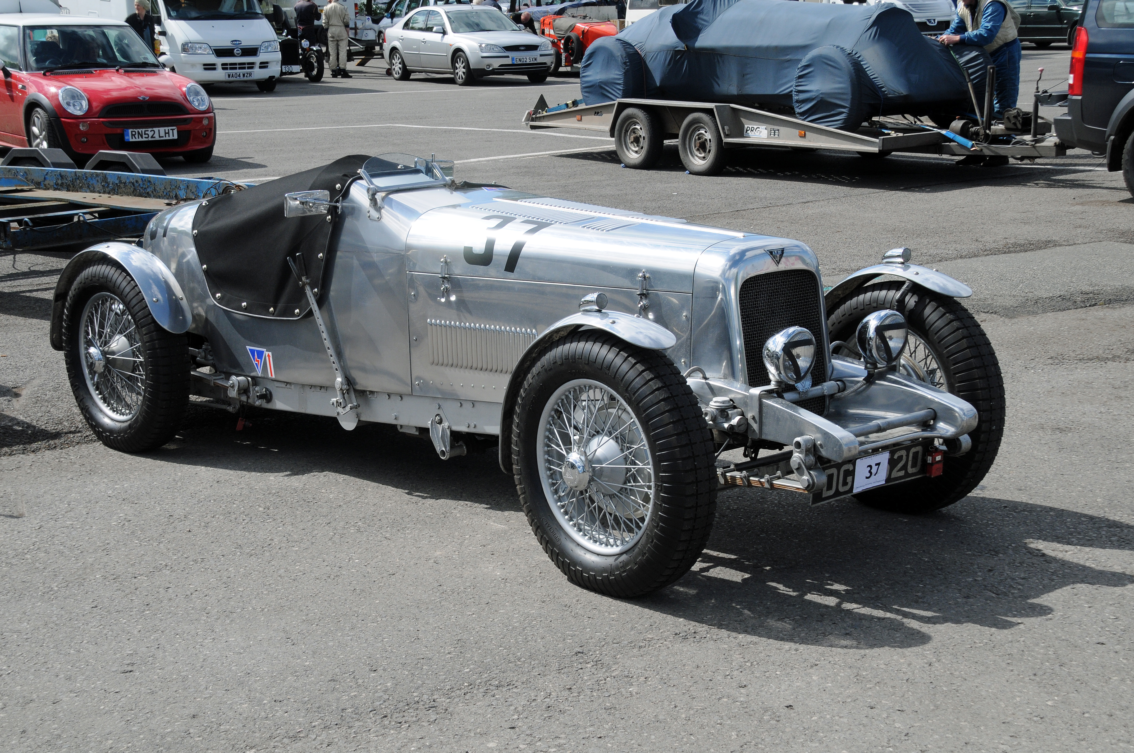 1938 Alvis 12-70 special sports Registration: DGD520 Chassis Number: 15882 Engine Number: 14695 source of information